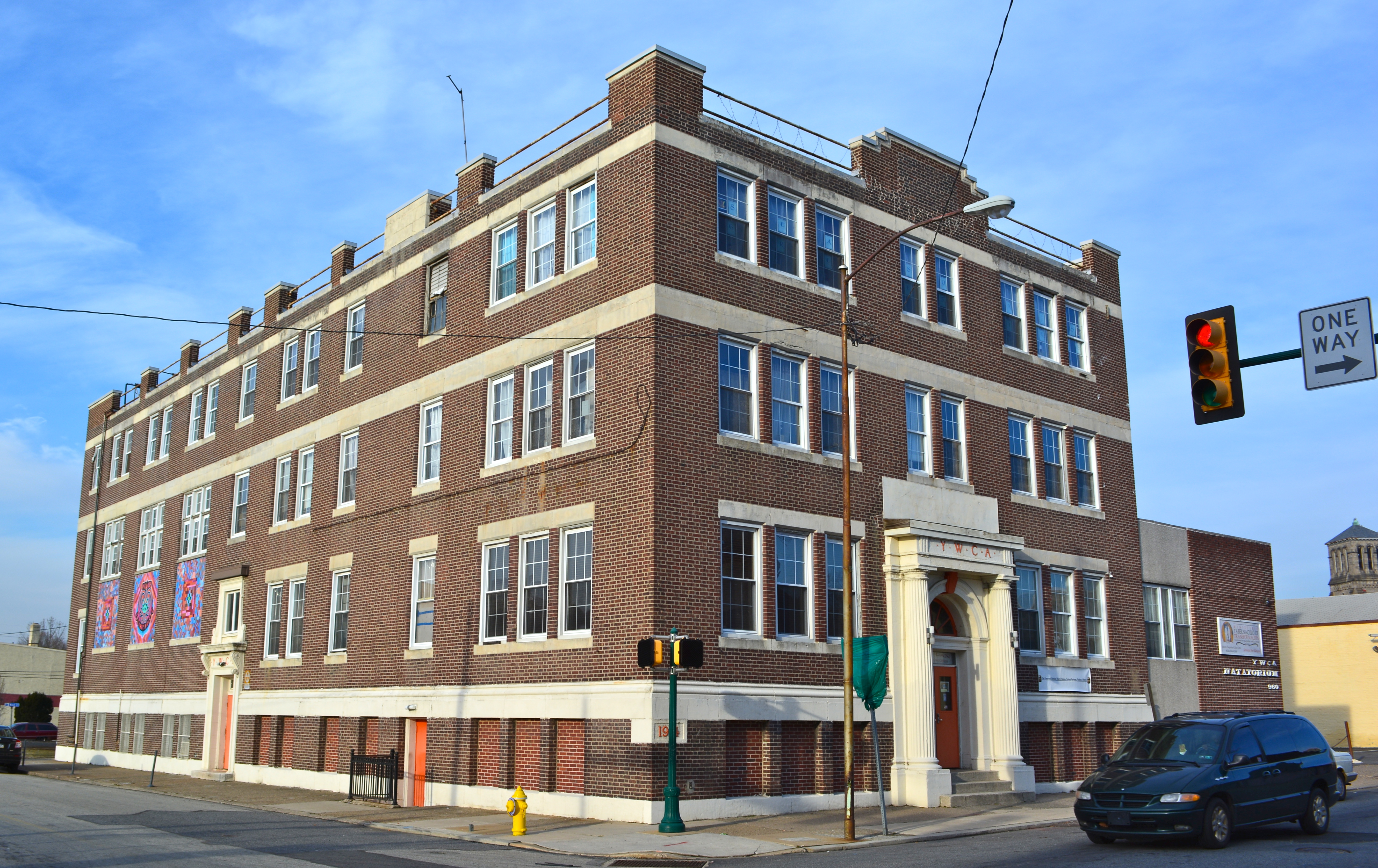 In downtown Chester, Pennsylvania the YWCA.